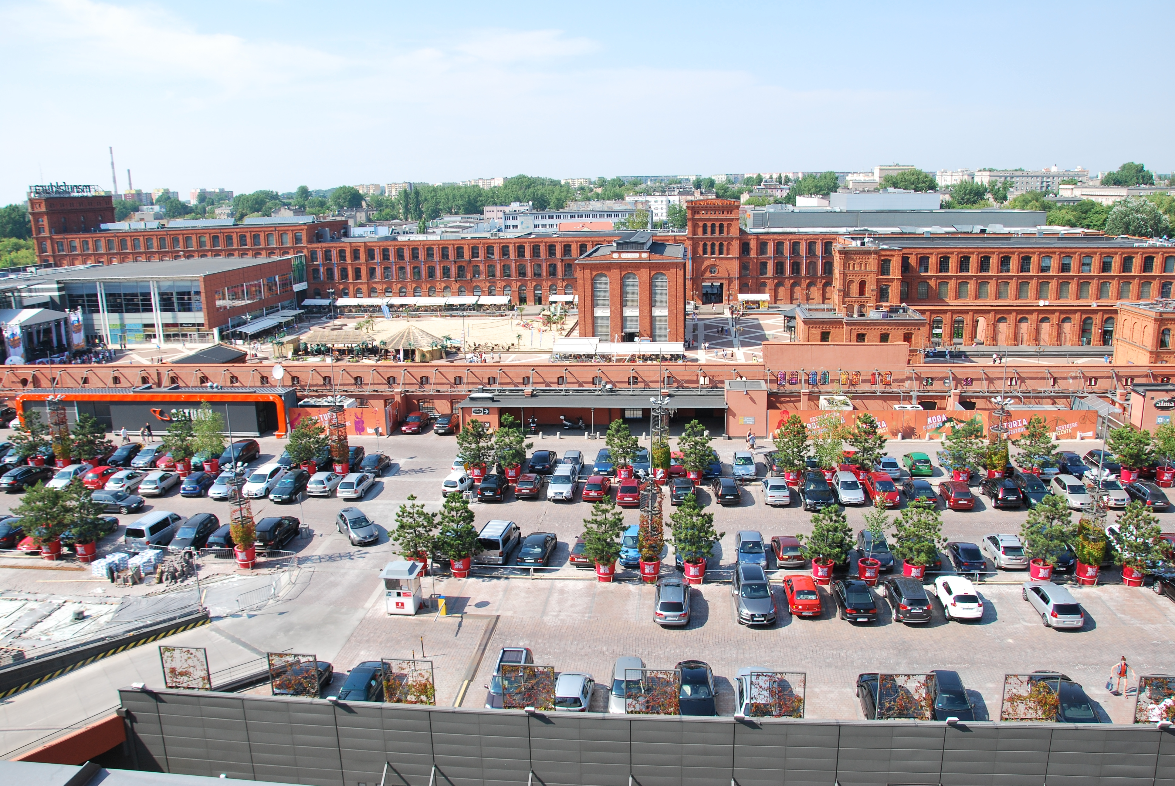 Manufaktura Łódź, view from Andels Hotel